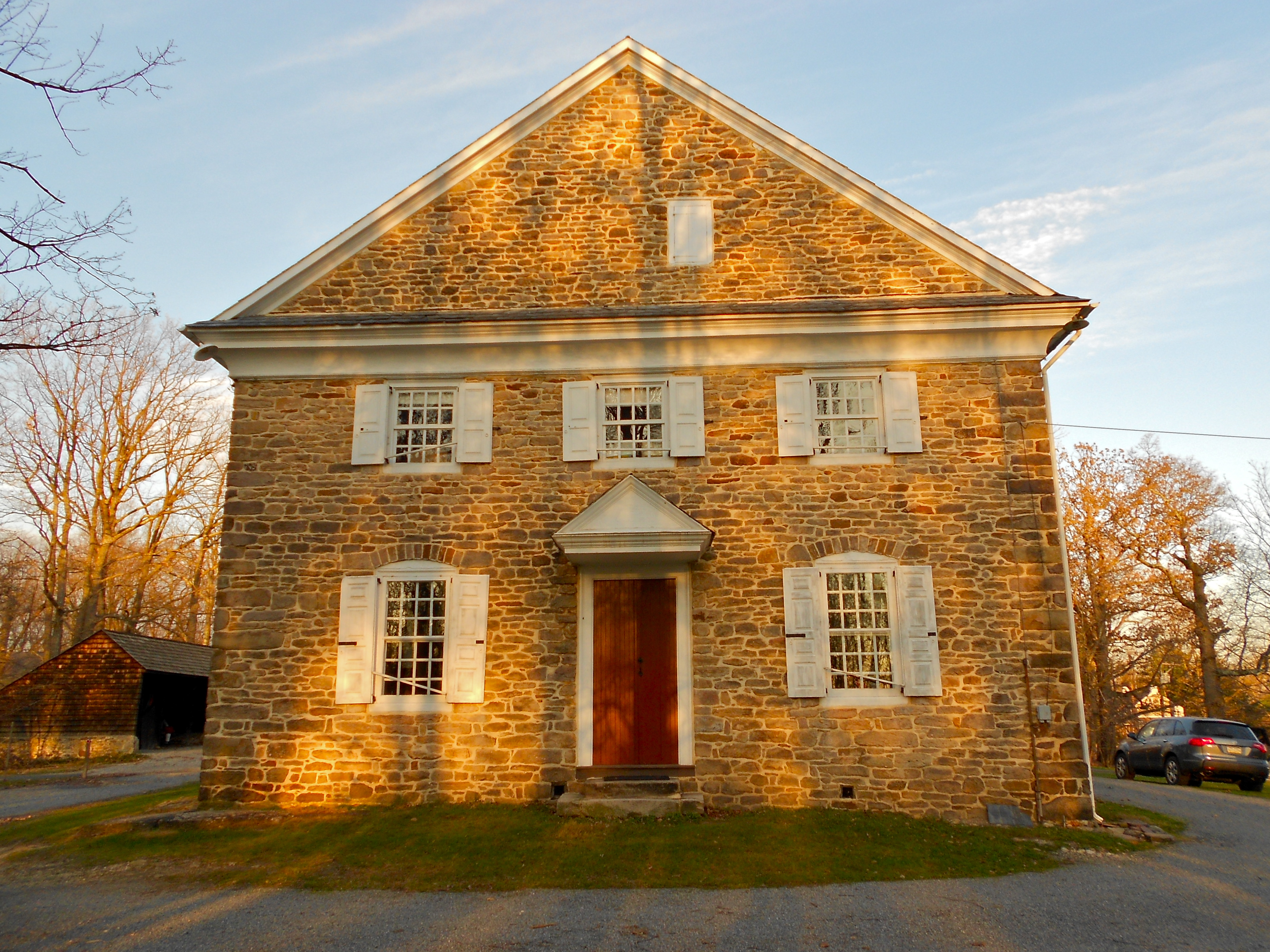 West end of Buckingham Friends Meeting House on the NRHP since March 28, 1997. A National Historic Landmark. At 5684 Lower York Road, Buckingham Township, Bucks County, Pennsylvania.